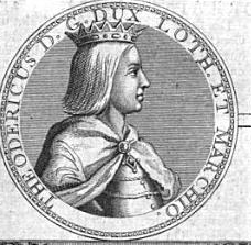 Theodoric II of Lorraine